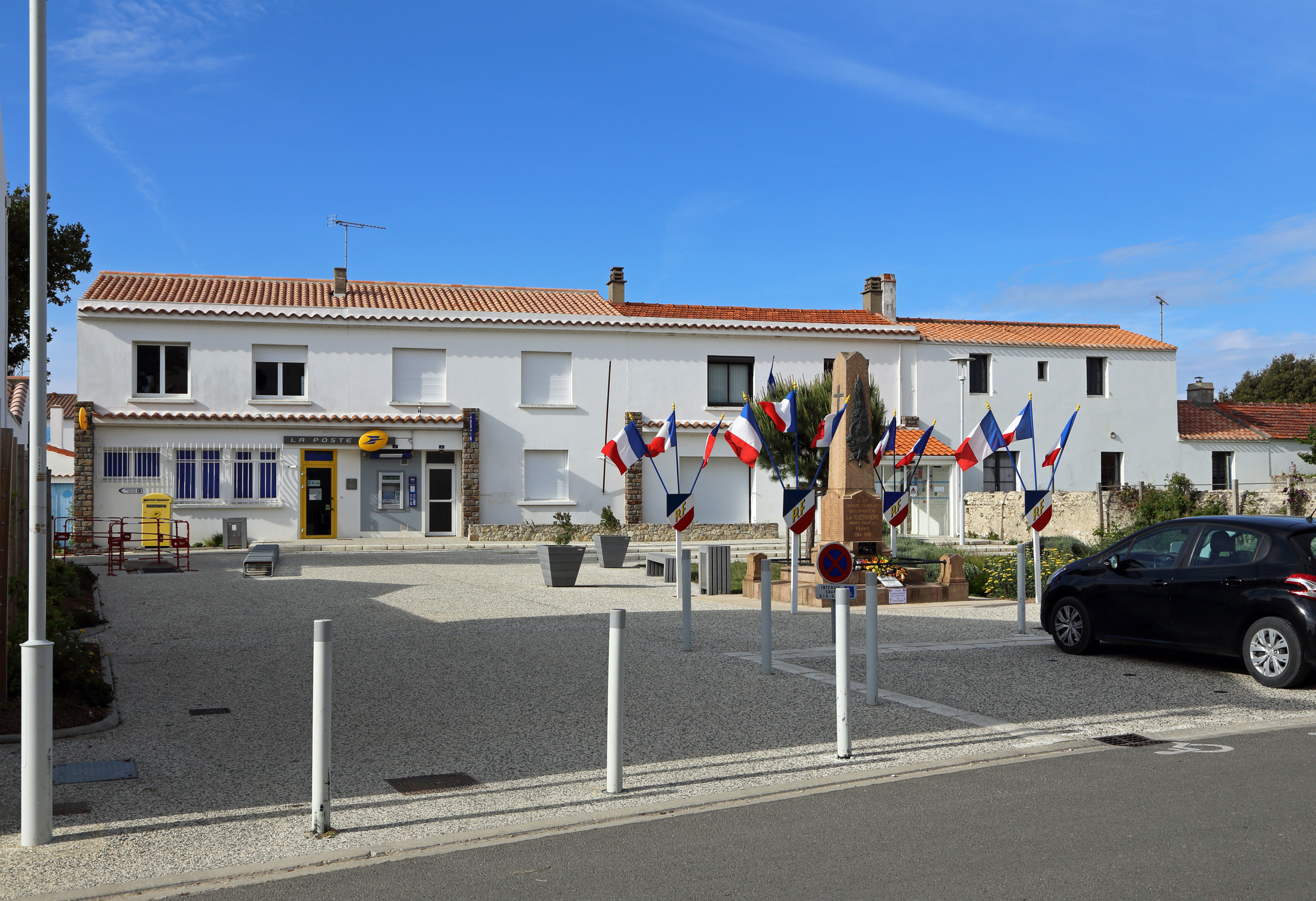 La Guérinière (Noirmoutier Island, Vendée department, France): the Place de la Mairie, with post office, town hall and war memorial